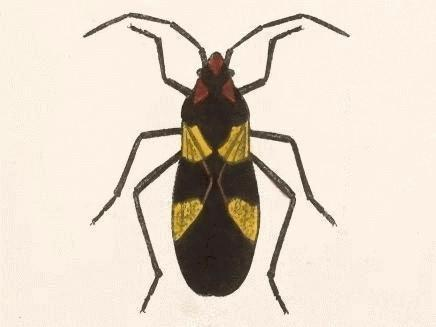 Biologia Centrali-Americana - Oncopeltus varicolor Cut-out from original (Biologia Centrali-Americana (8271466643).jpg) shown below